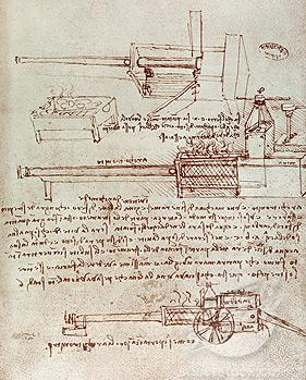 The Architonnerre , a kind of steam powered cannon, a description of which is found in the papers of Leonardo da Vinci, although he attributes its invention to Archimedes.